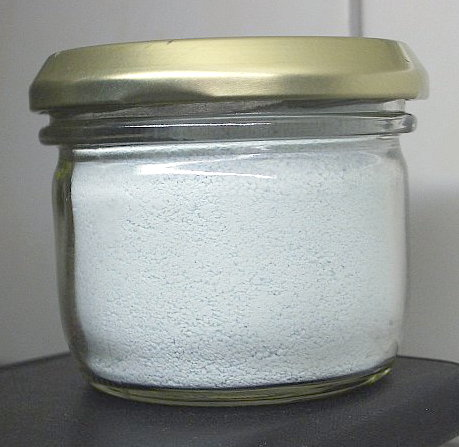 Copper sulfate anhydrous, powder